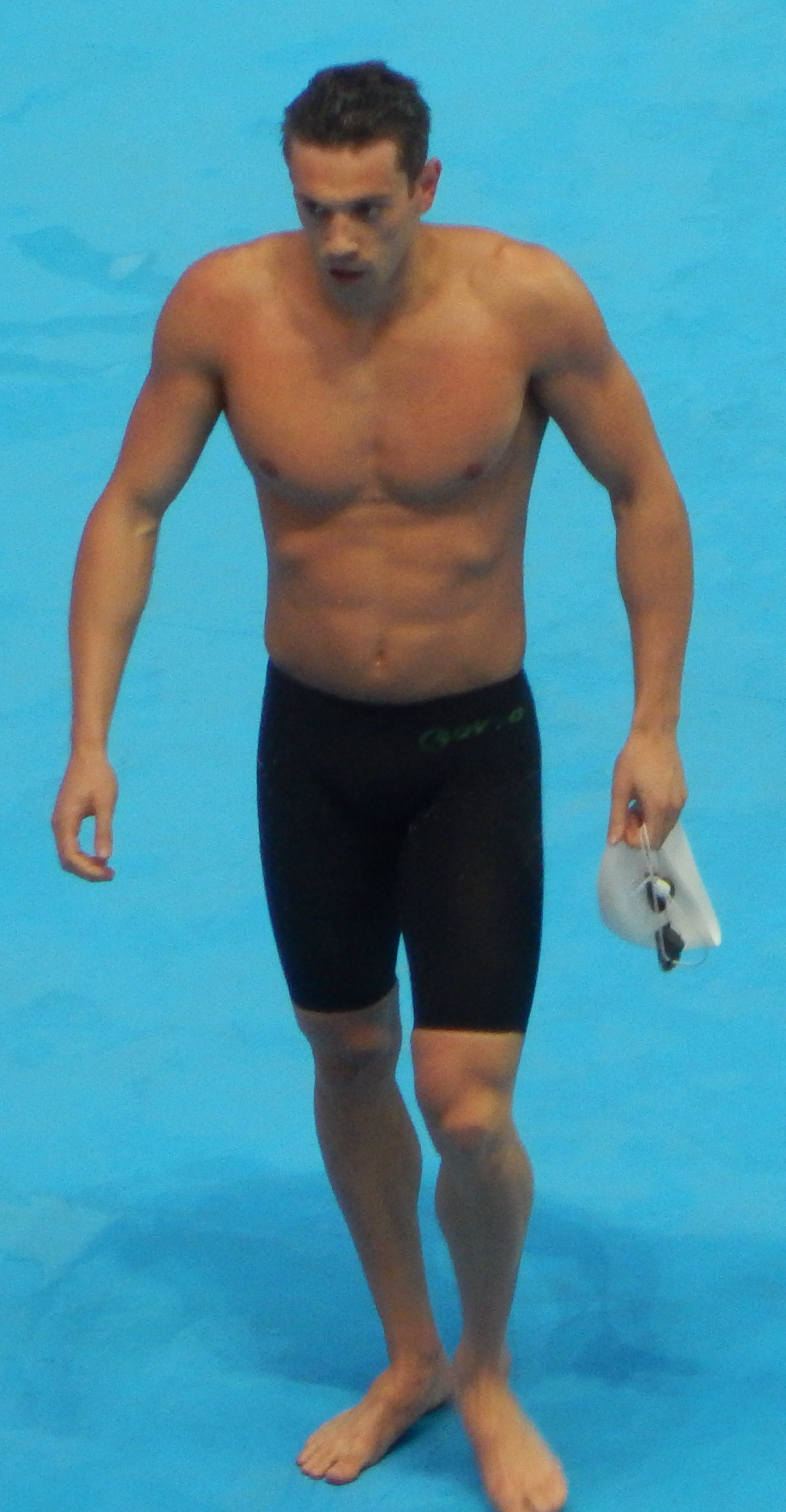 Čaba Silađi after 50m breast semi in Kazan